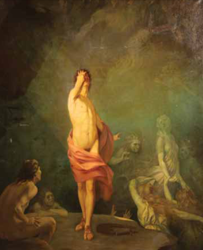 Orpheus in Inferno. Original located in the National Museum of Art of Romania collection.